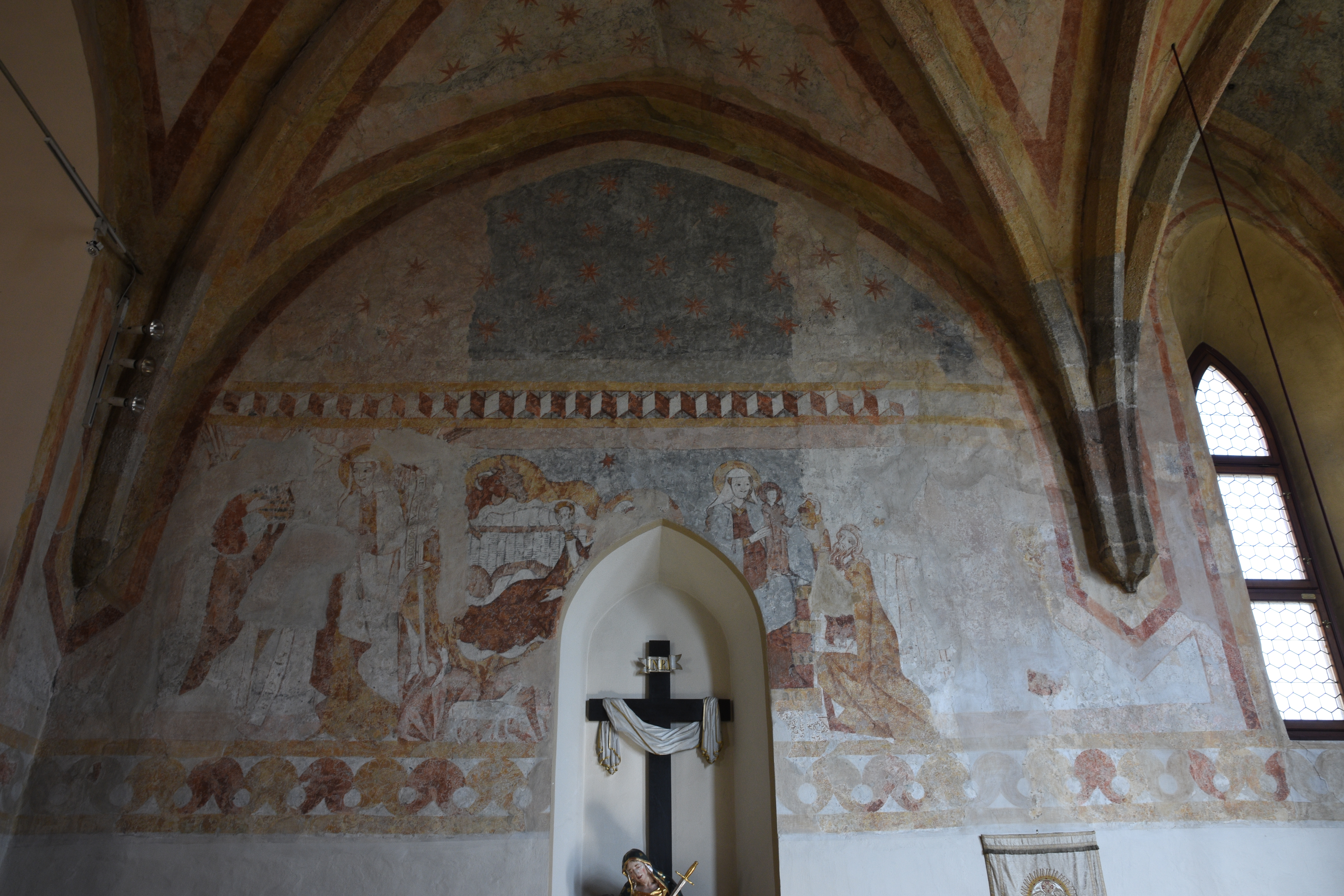 Church Altenmarkt bei Fürstenfeld